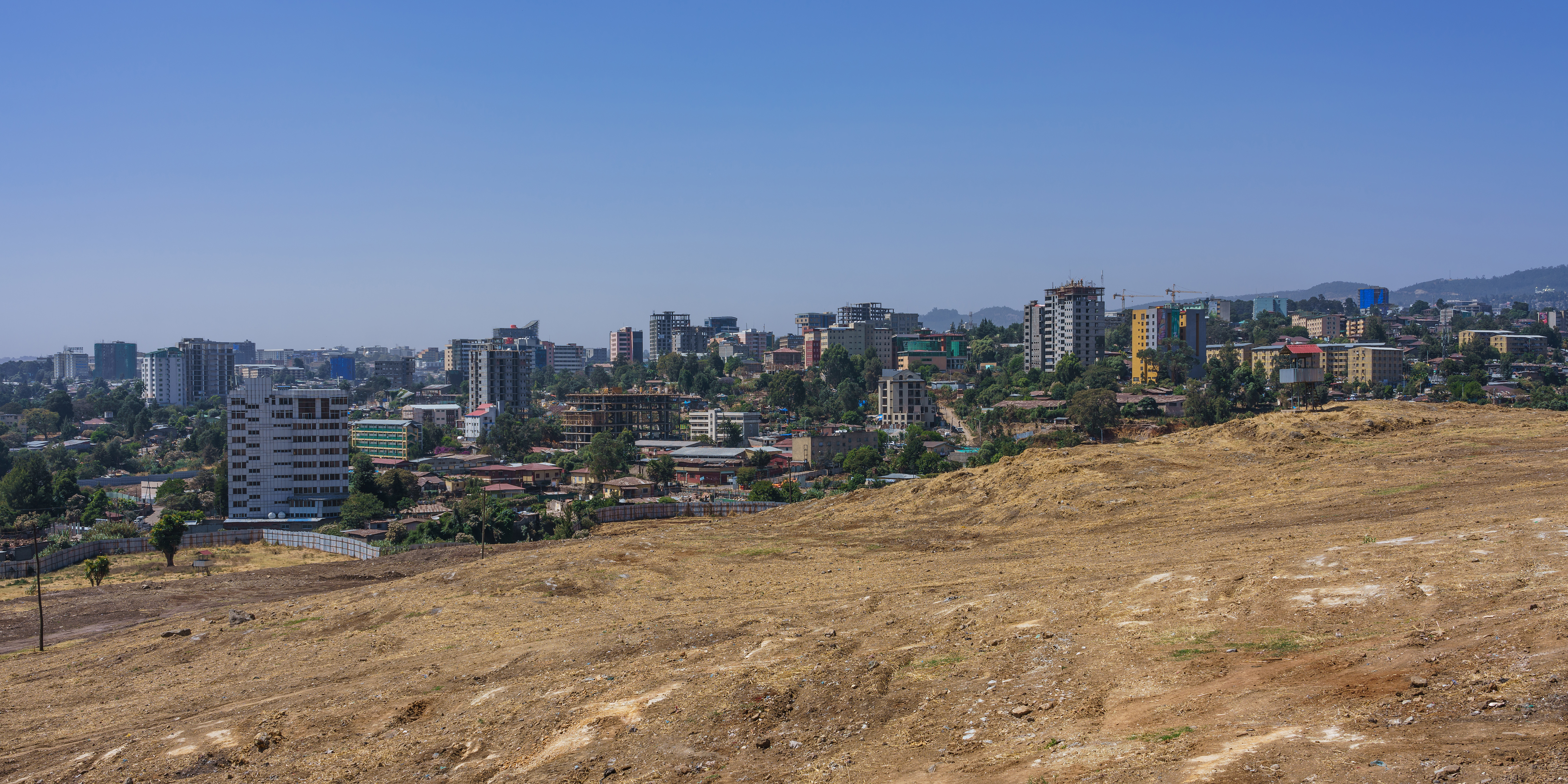 View from a hill in Addis Ababa, Ethiopia